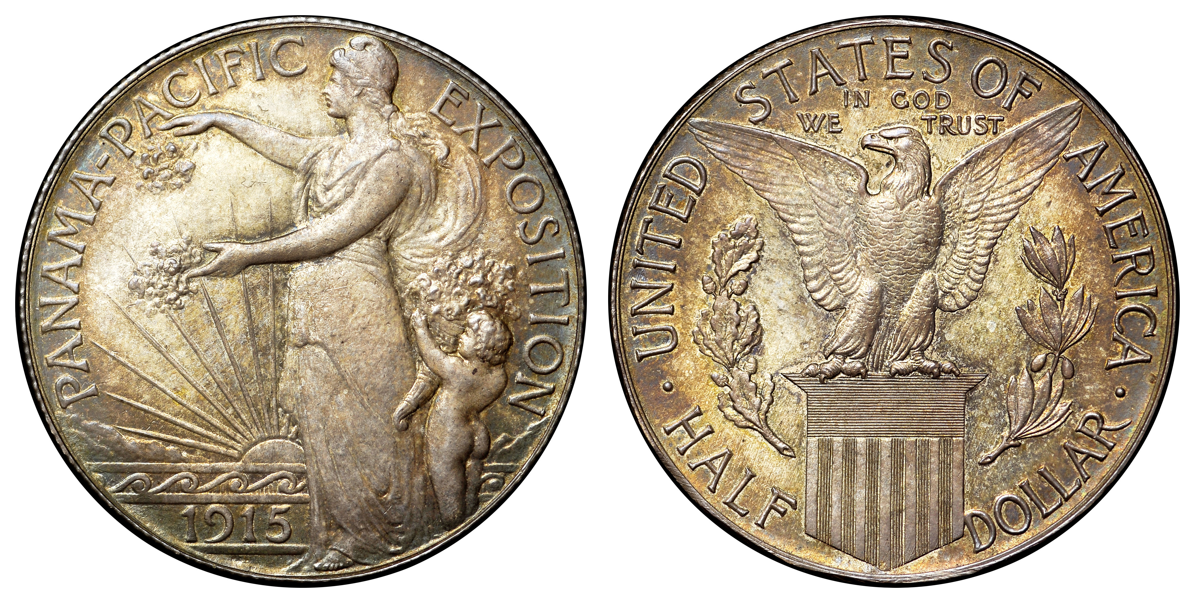 1915 P50C No S Panama-Pacific Half Dollar (Judd-1791-1961, Pollock-2029)(1184-4047)